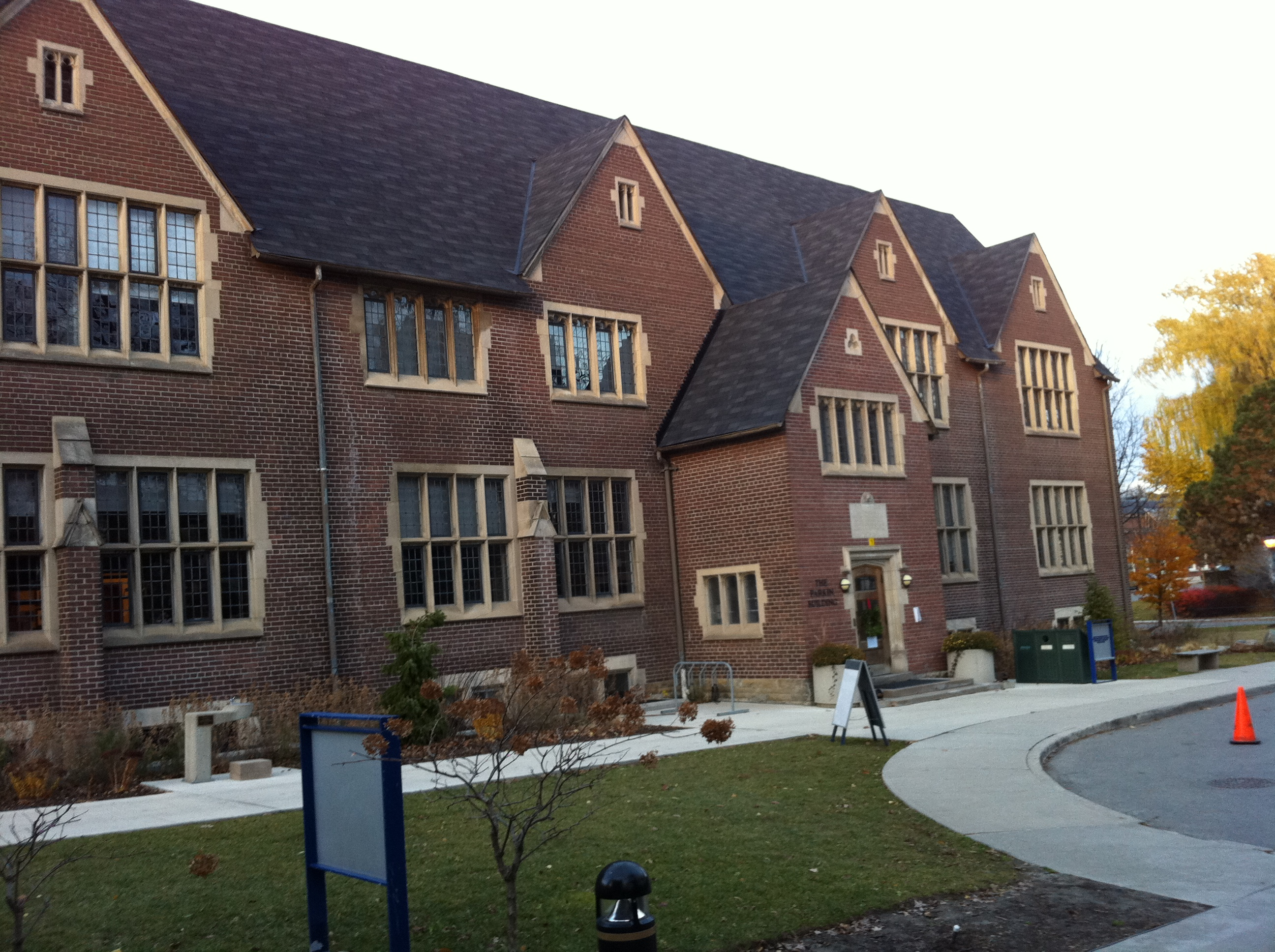 Parkin Building of Upper Canada College